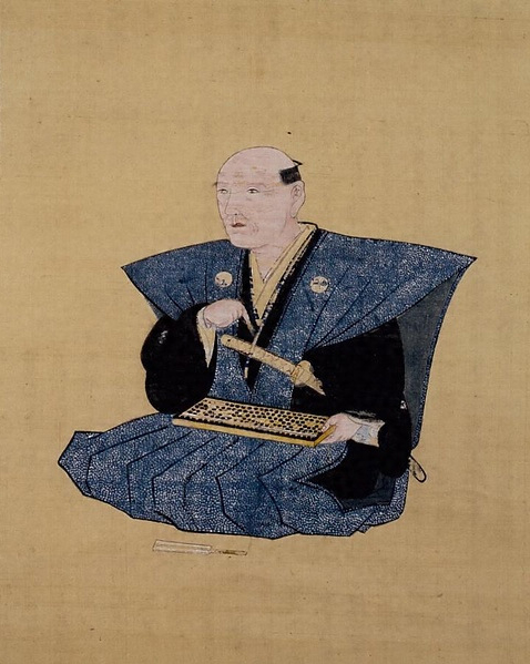 Ishiguro Nobuyoshi, Imizu City Shinminato Museum, Imizu, Toyama, Japan